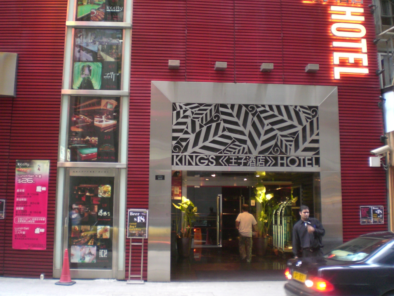 中文（香港）: 王子酒店 @ 謝斐道, King's Hotel, Jaffe Road, Wan Chai, Hong Kong.